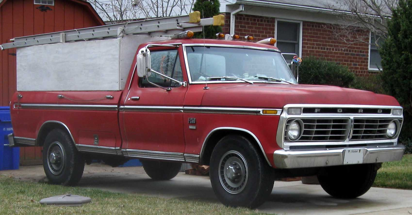 1973-1975 Ford F-350 photographed in Rockville, Maryland, USA.